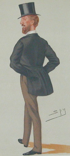 Caricature of Lord Henry Frederick Thynne PC, DL (1832-1904). Caption read "younger son".